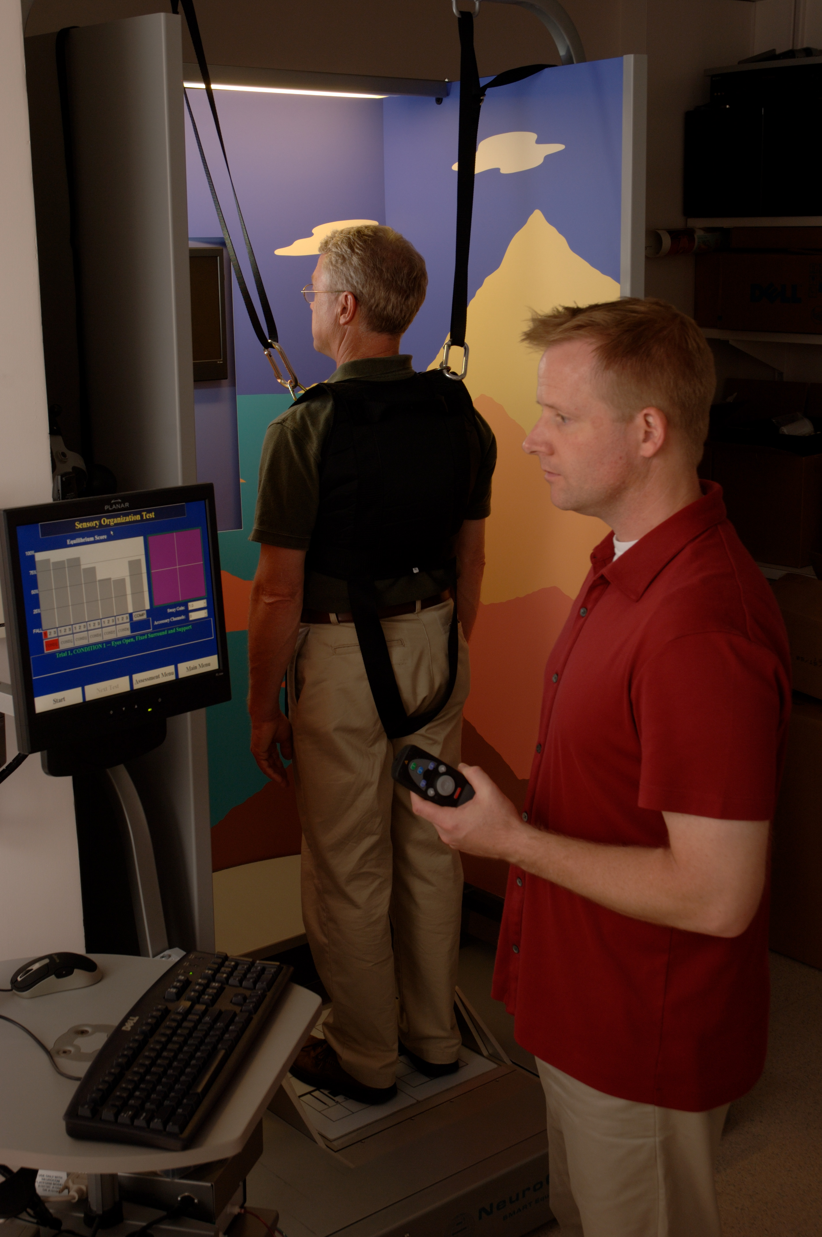 Title: Balance testing Description: Audiologist assessing the relative contribution of the somatosensory, visual, and vestibular systems to functional balance using computerized platform posturography. Categories: Research in NIH Labs and Clinics Type: Color, Photo Source: National Institute on Deafness and Other Communication Disorders (NIDCD) Date Created: Unknown Date Added: 5/24/2012 Reuse Restrictions: None - This image is in the public domain and can be freely reused. Please credit the source and/or author listed above.